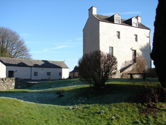 Buittle Place Buittle Place incorporates Buittle Tower (C16), which is associated with Dervorguilla Balliol. The tower was built on site of older fortification.